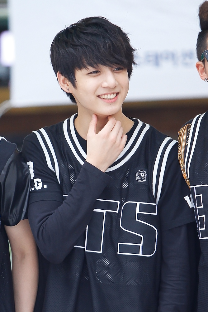 Jungkook at an fansign in Busan on July 27, 2013.